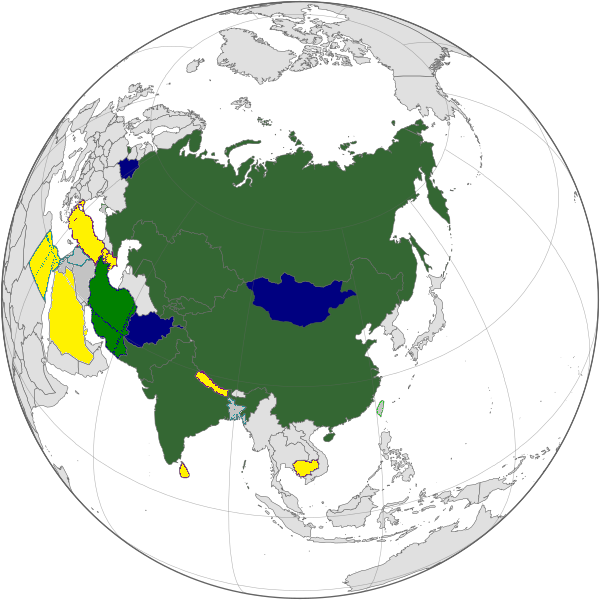 Map of the Shanghai Cooperation Organization. Strict definition - Member states Broad definition: Chinese disputed territories, Observer states, Dialogue Partners